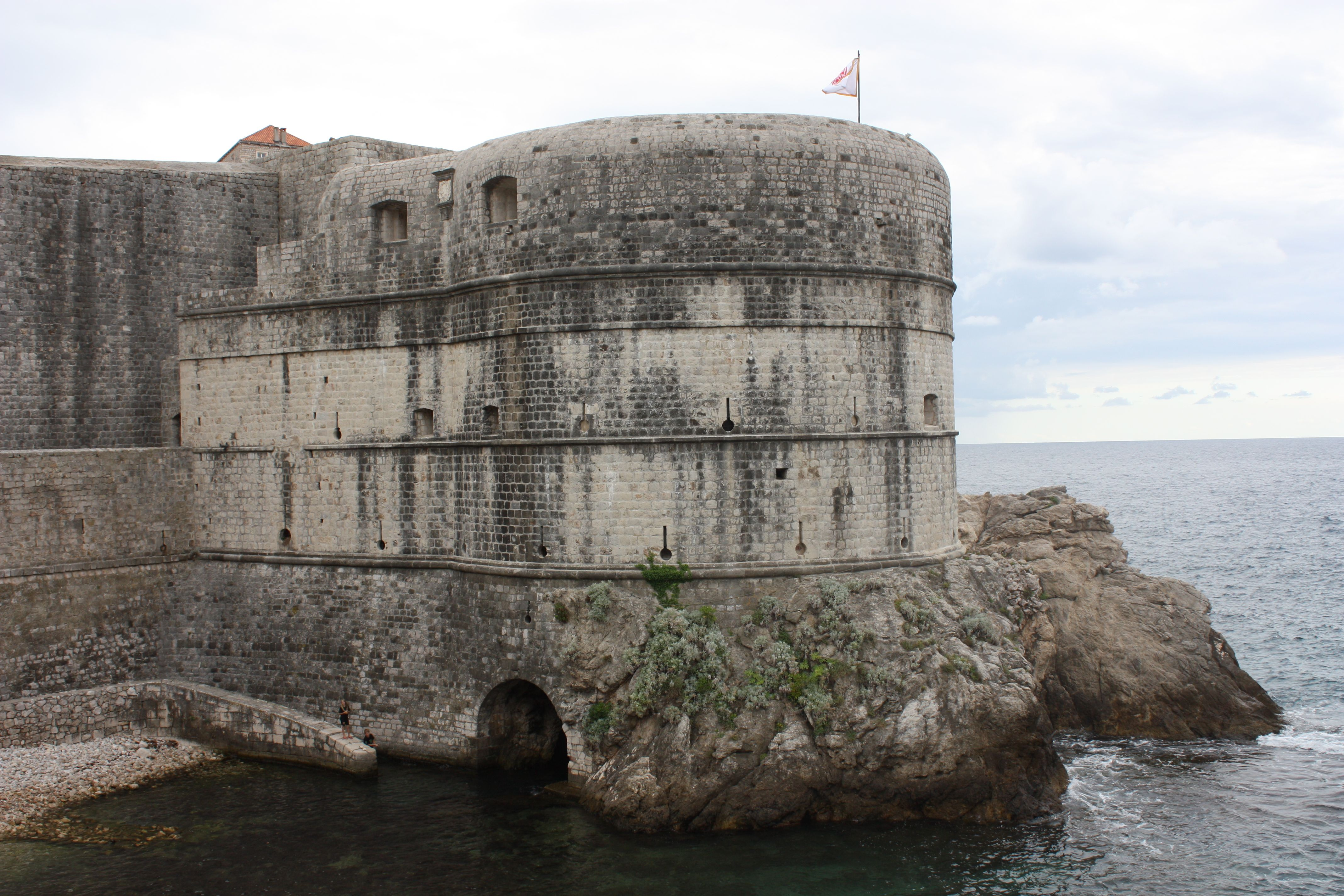 Bokar Fortress, city walls, Dubrovnik, Croatia, July 2011